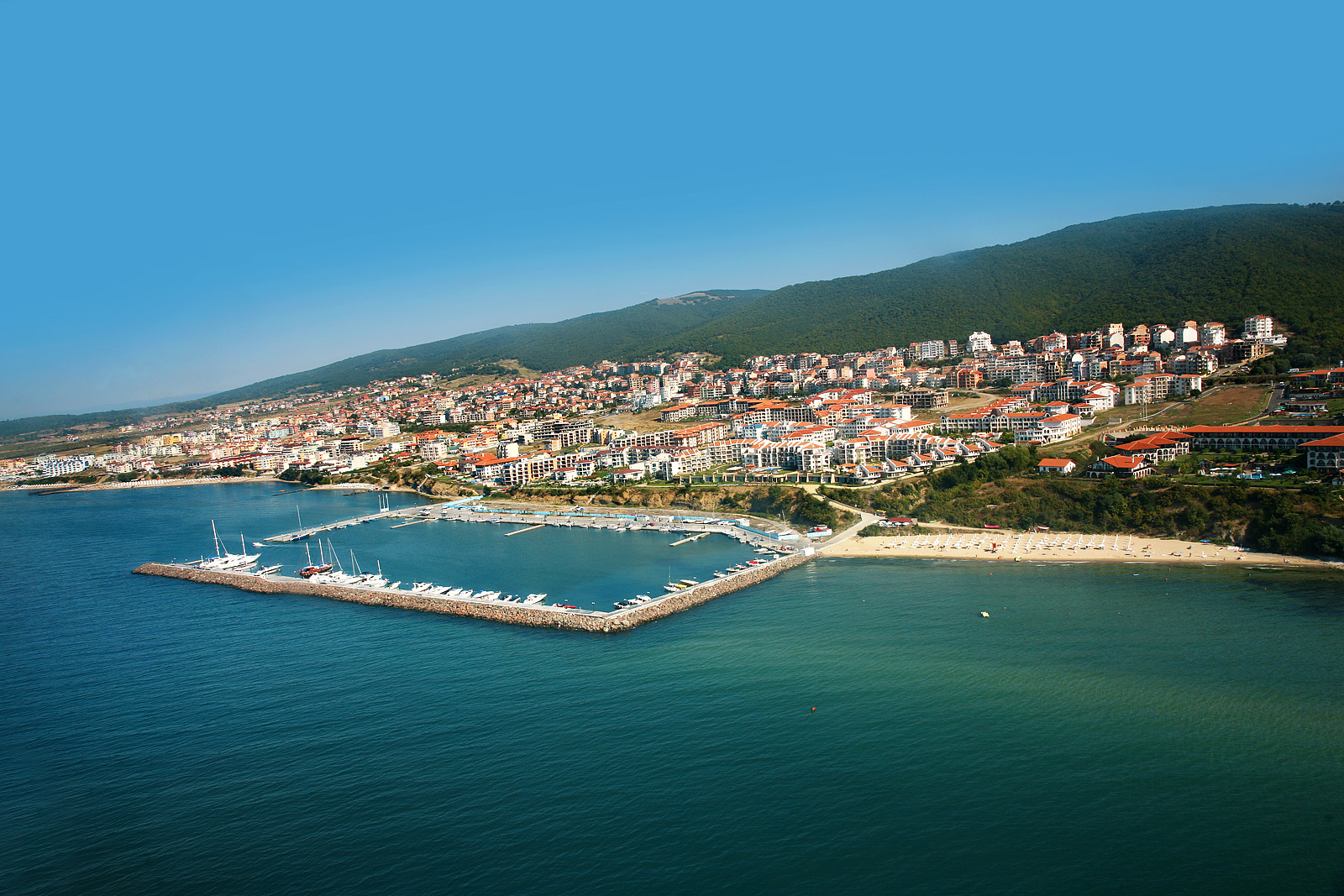 Shot from a small plane.